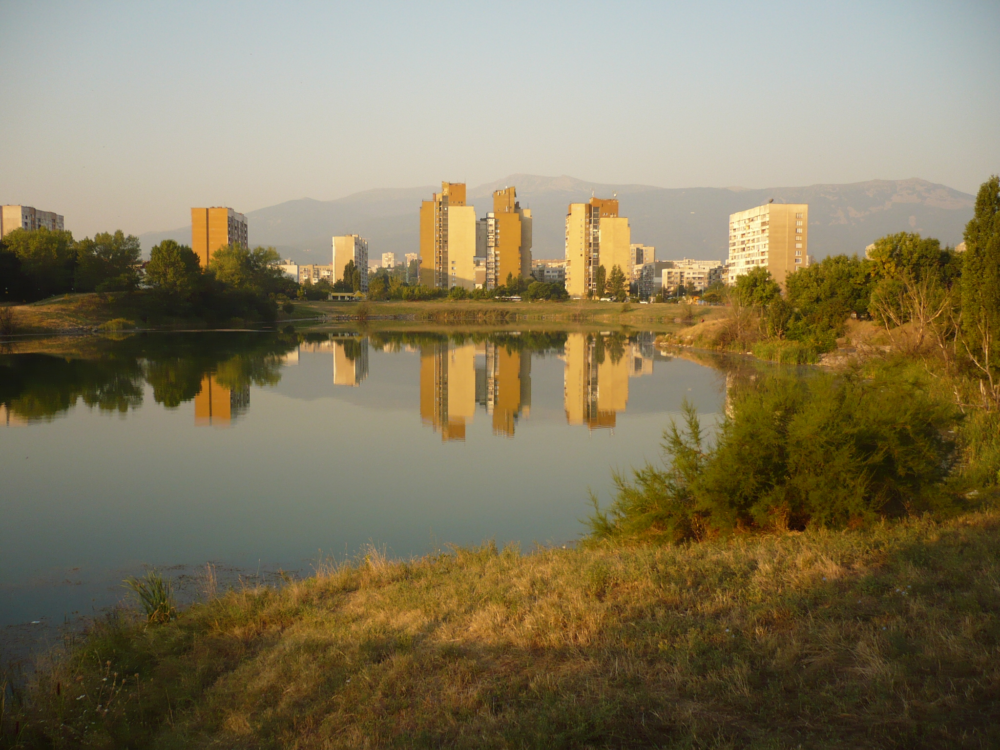 Sofia, the lake in the "Druzhba" neighbourhood.